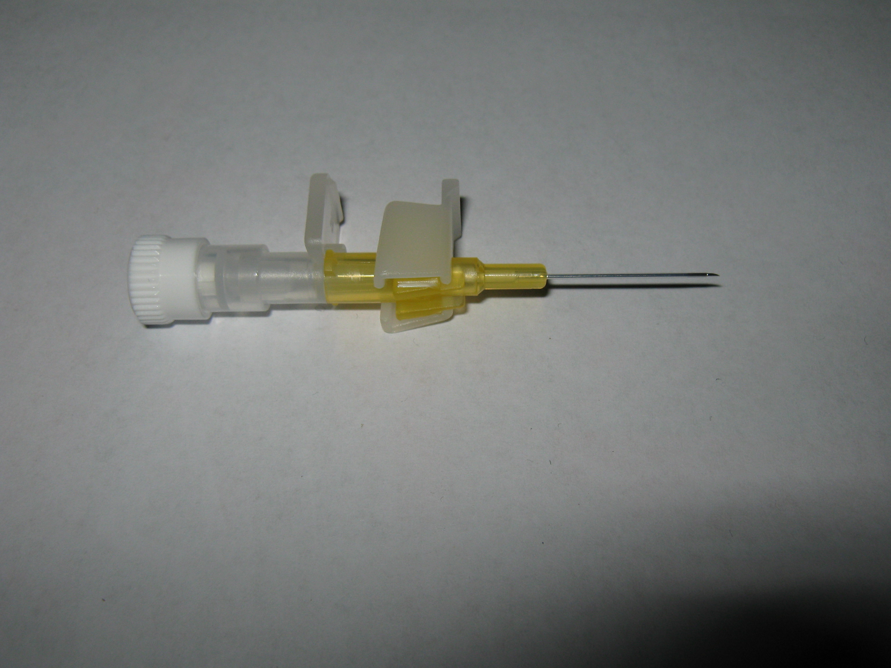 IV Canule